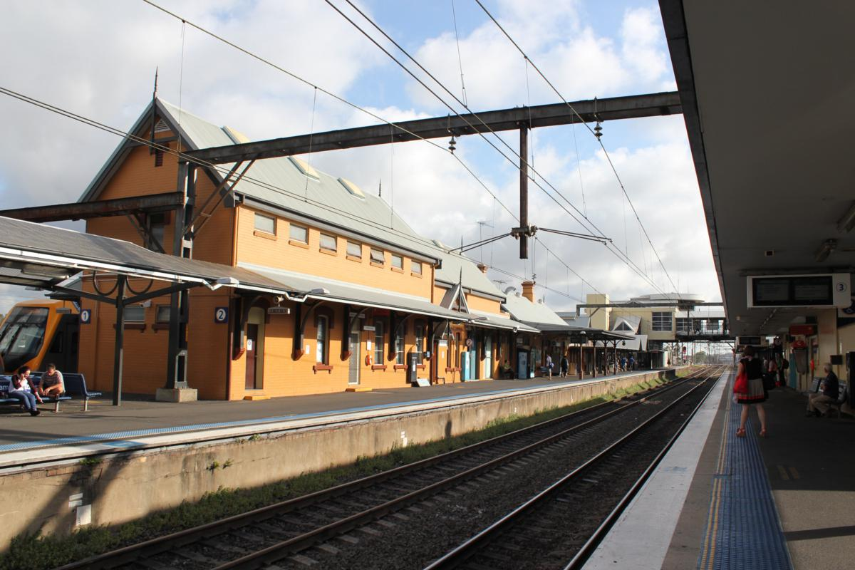 original station buildings on island platforms 1 and 2 and concourse visible, as seen from platform 3, looking north